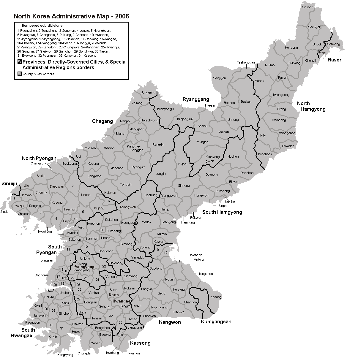 A map of North Korea with second-level divisions.